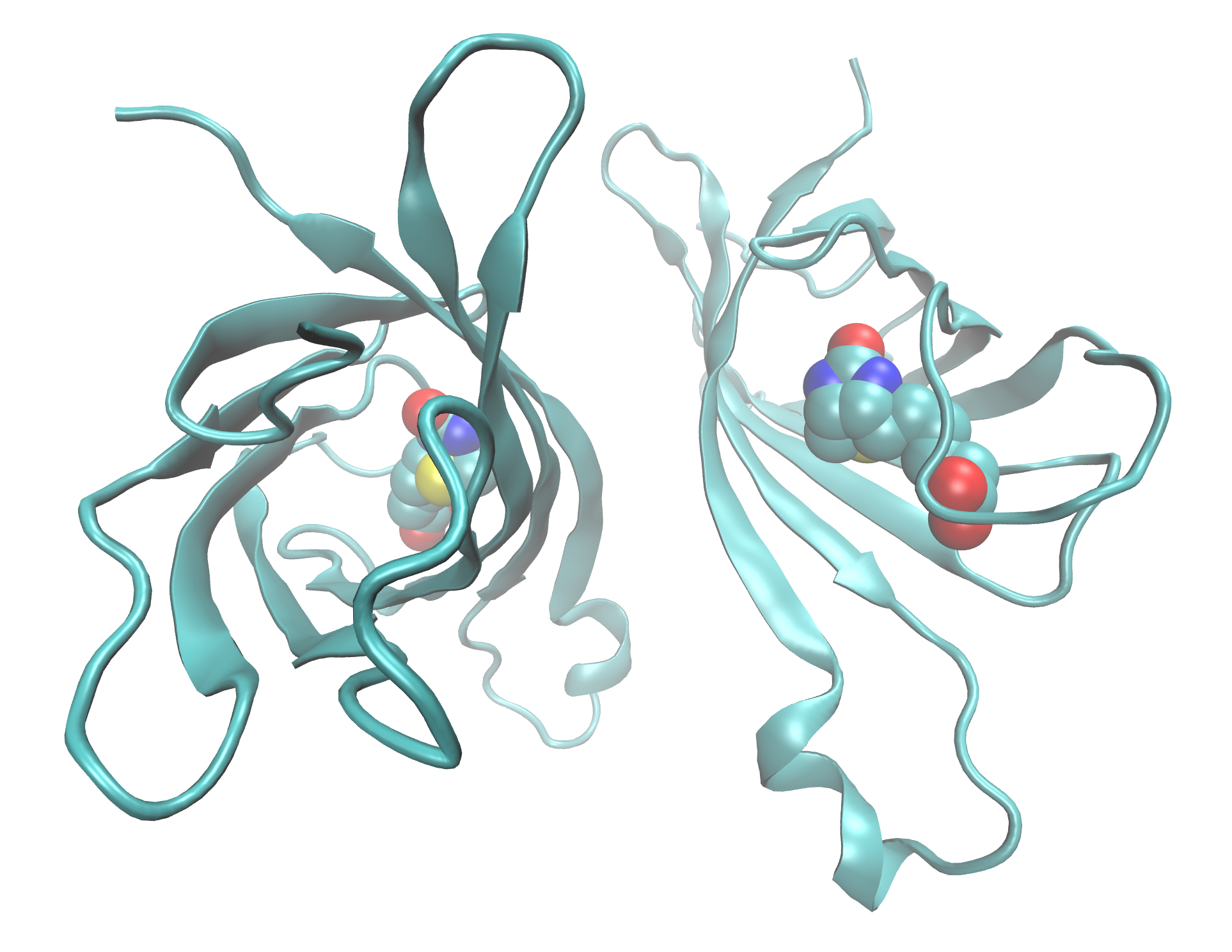 Surface model of chicken avidin dimer with bound biotin as balls, after PDB 1AVD. Ref.: Pugliese L, Coda A, Malcovati M, Bolognesi M (June 1993). "Three-dimensional structure of the tetragonal crystal form of egg-white avidin in its functional complex with biotin at 2.7 A resolution". J. Mol. Biol. 231 (3): 698–710. PMID 8515446.